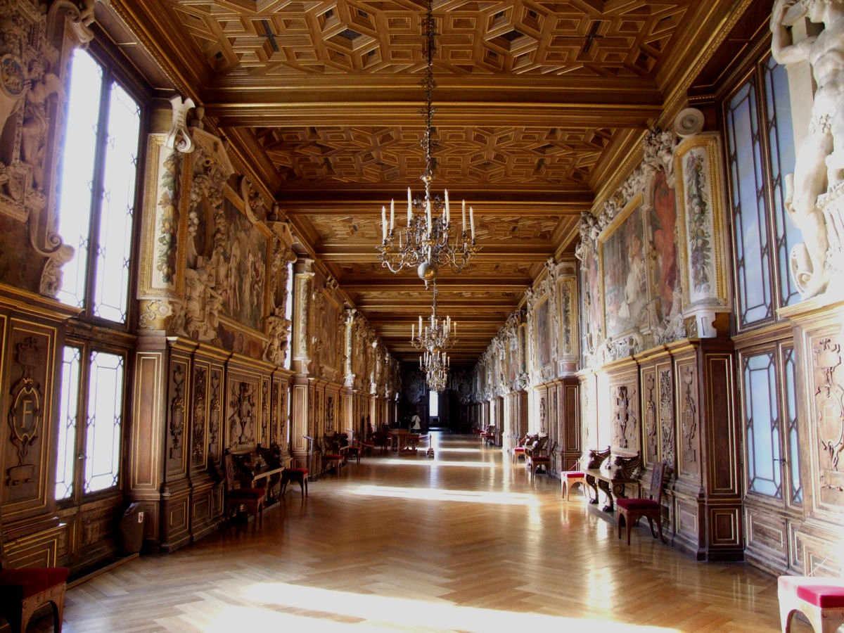 Francois I Gallery, Château de Fontainebleau, France